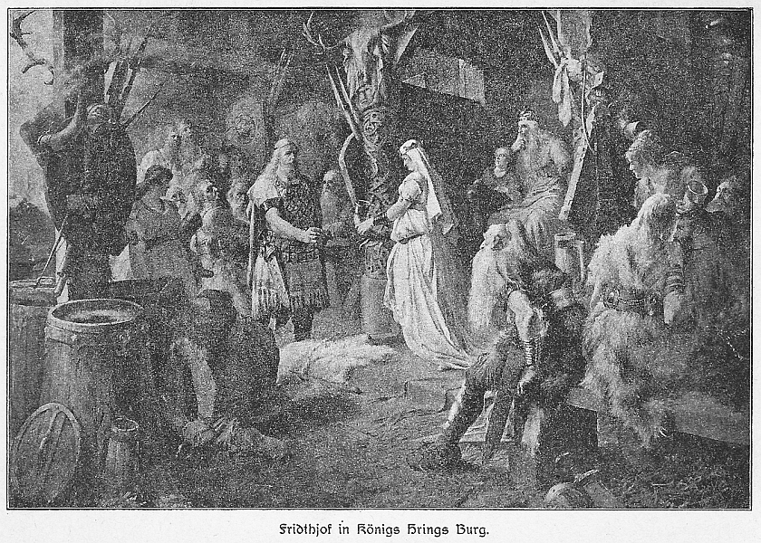 Fritjof and Ingeborg in King Hring's castle, King Sigurd Hring is sitting on the trone with his son Ragnar on his lap